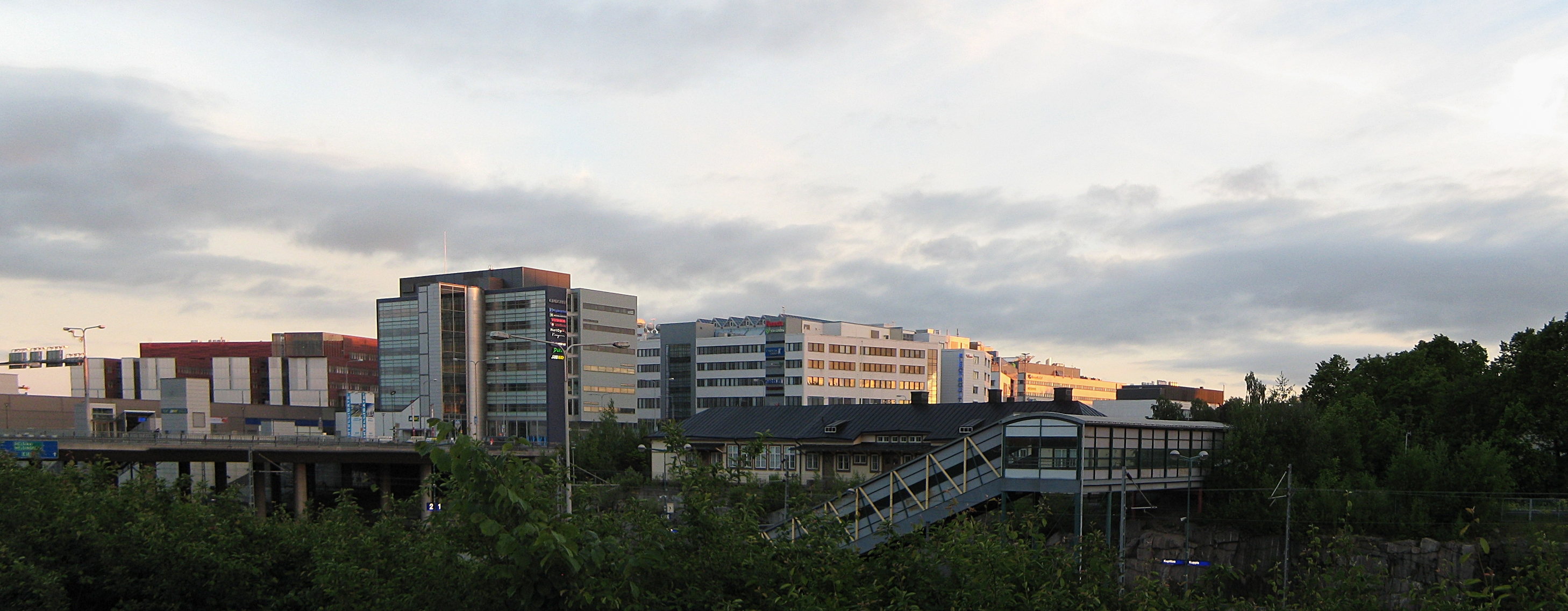 Kupittaa district in the city of Turku in Finland.